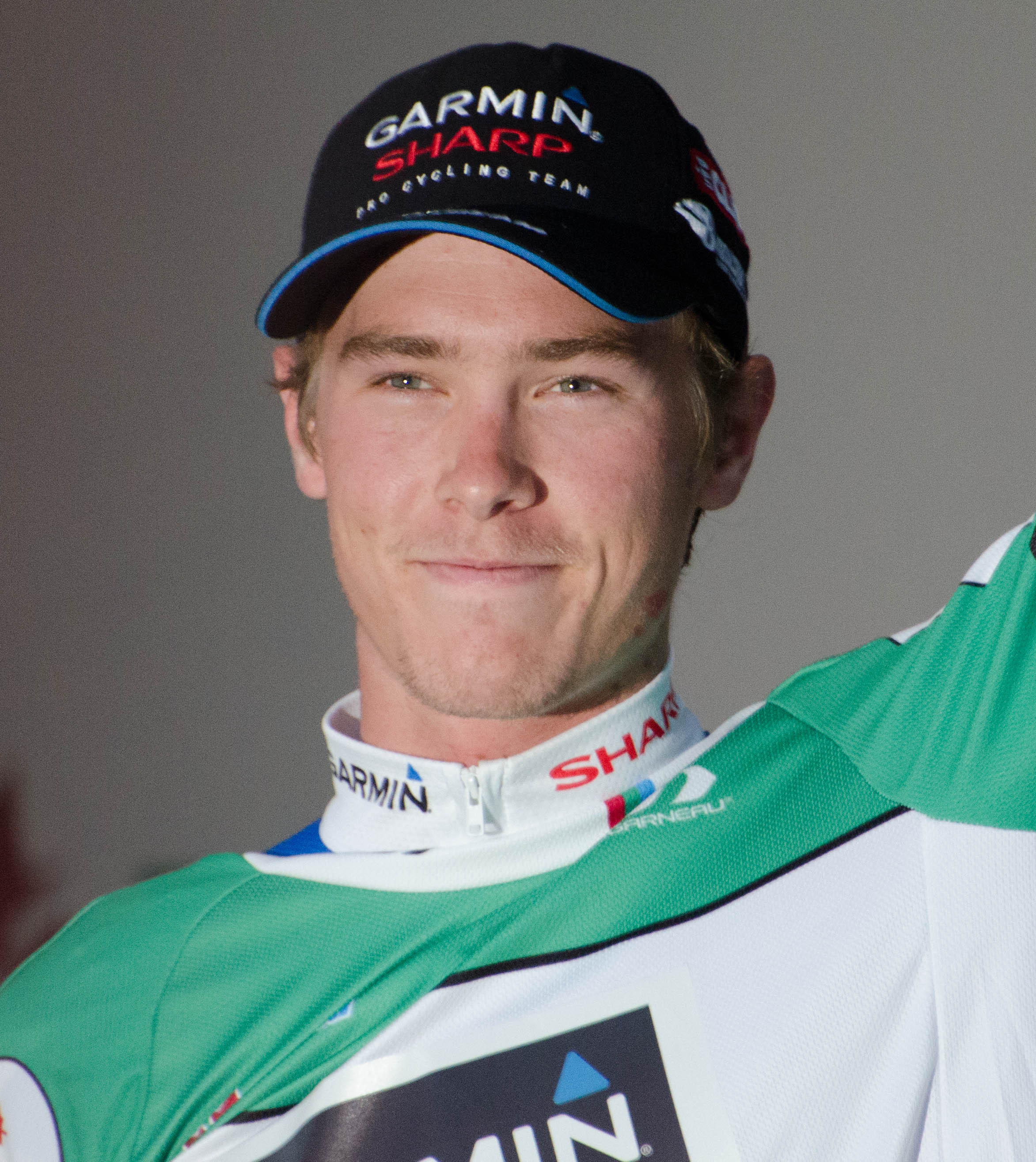 Rohan Dennis at the 2013 Tour of Alberta